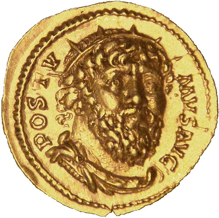 Postumus_Cologne_aureus_267_gold_7,4 g